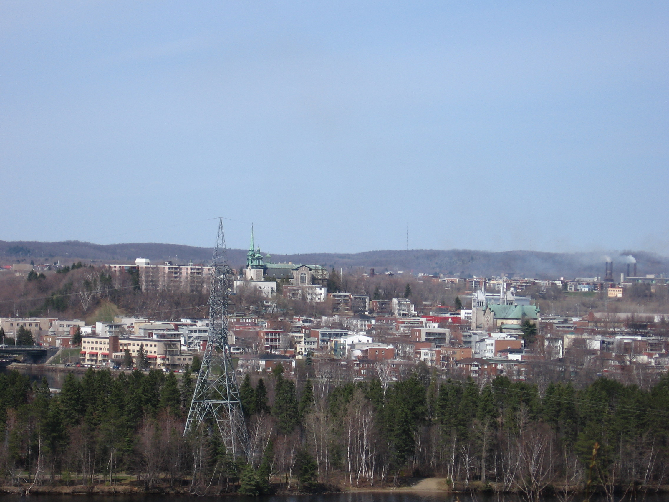 City of Shawinigan